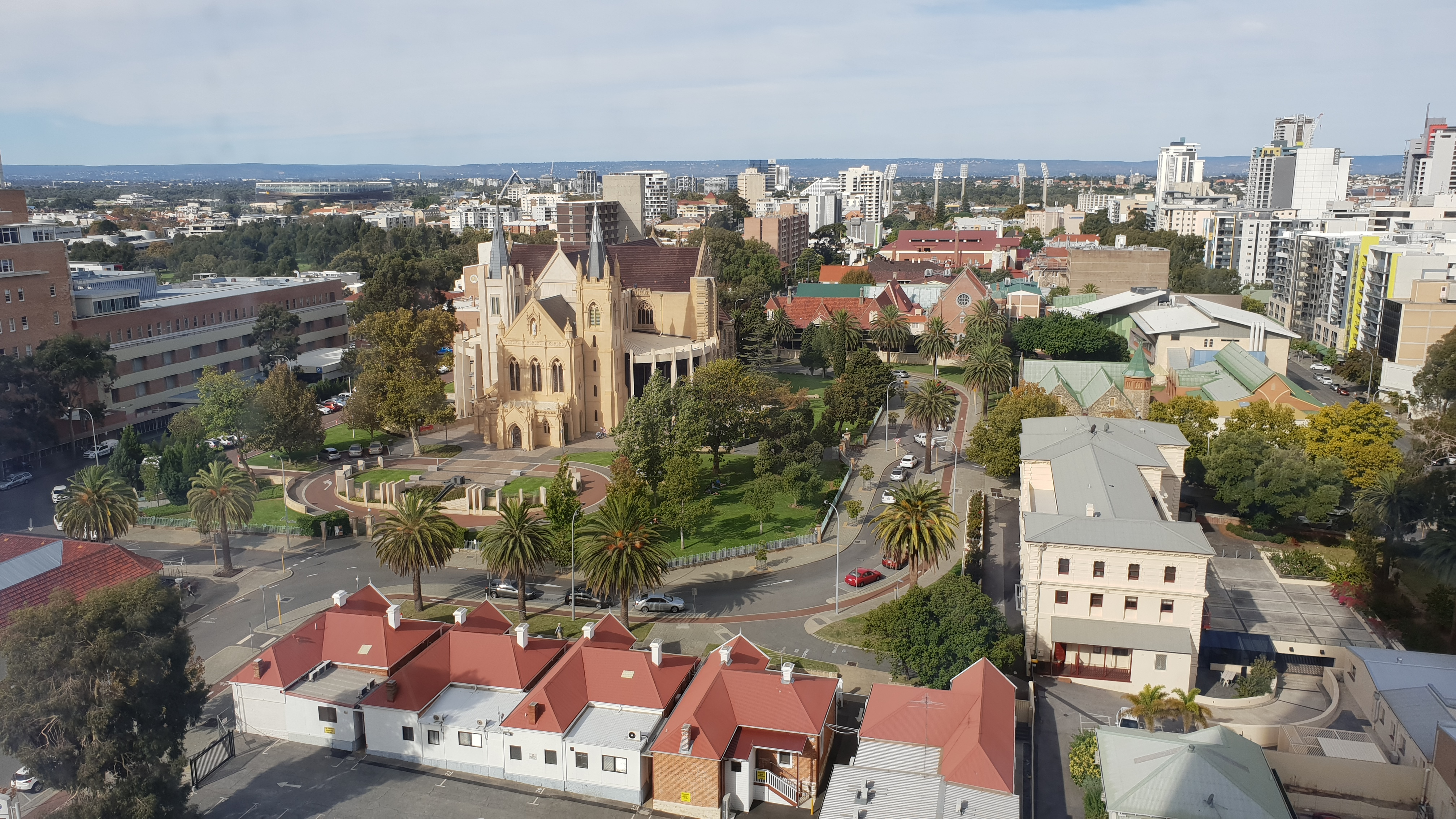 Looking east across East Perth in the foreground towards the Darling Scarp, visible as low hills in the distance. Photograph taken from the 10th floor of the Westin Hotel in the Perth CBD. St Mary's Cathedral is the distinctive cream coloured building in the centre of the image